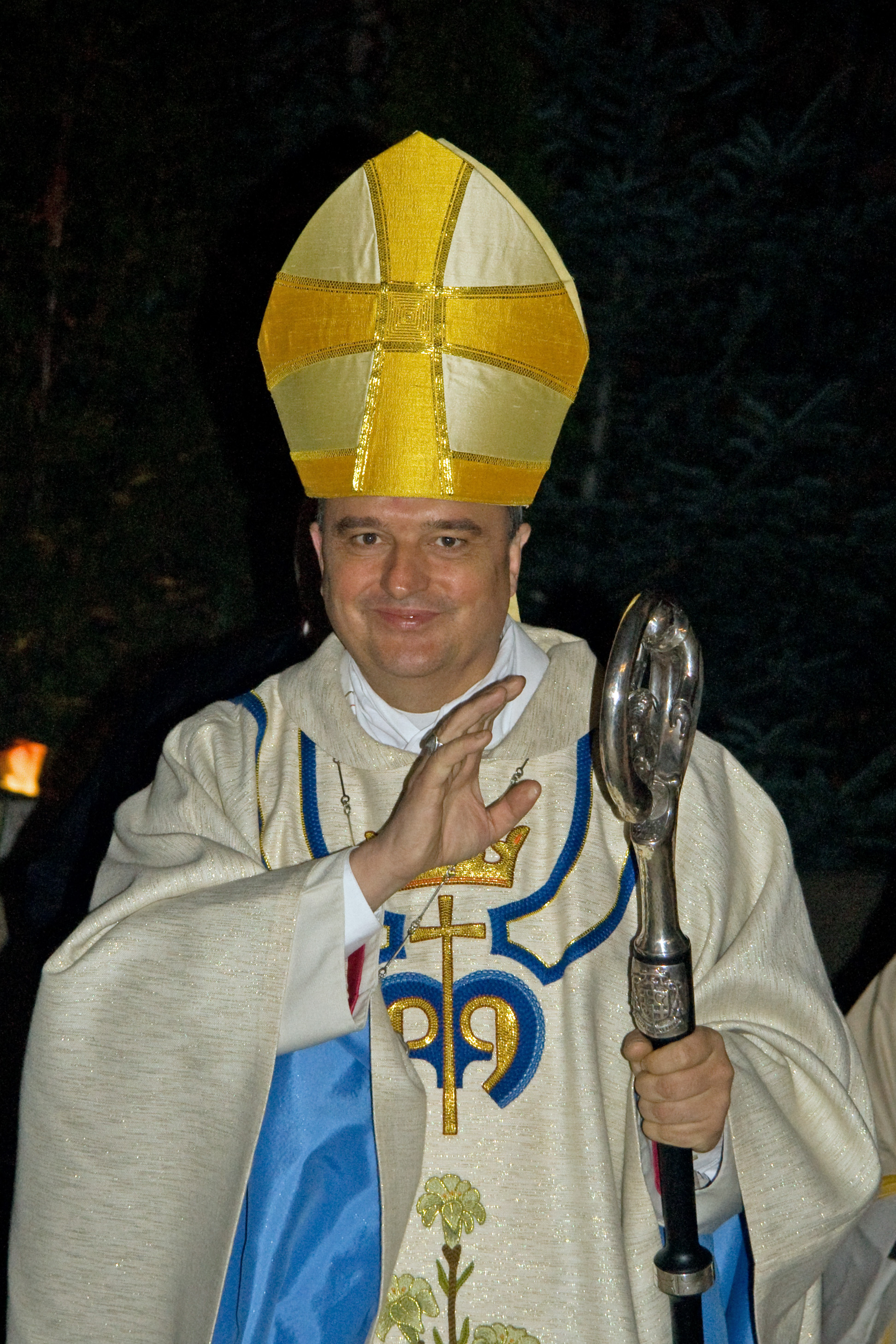 Karl-Heinz Wiesemann, Bishop of Speyer.